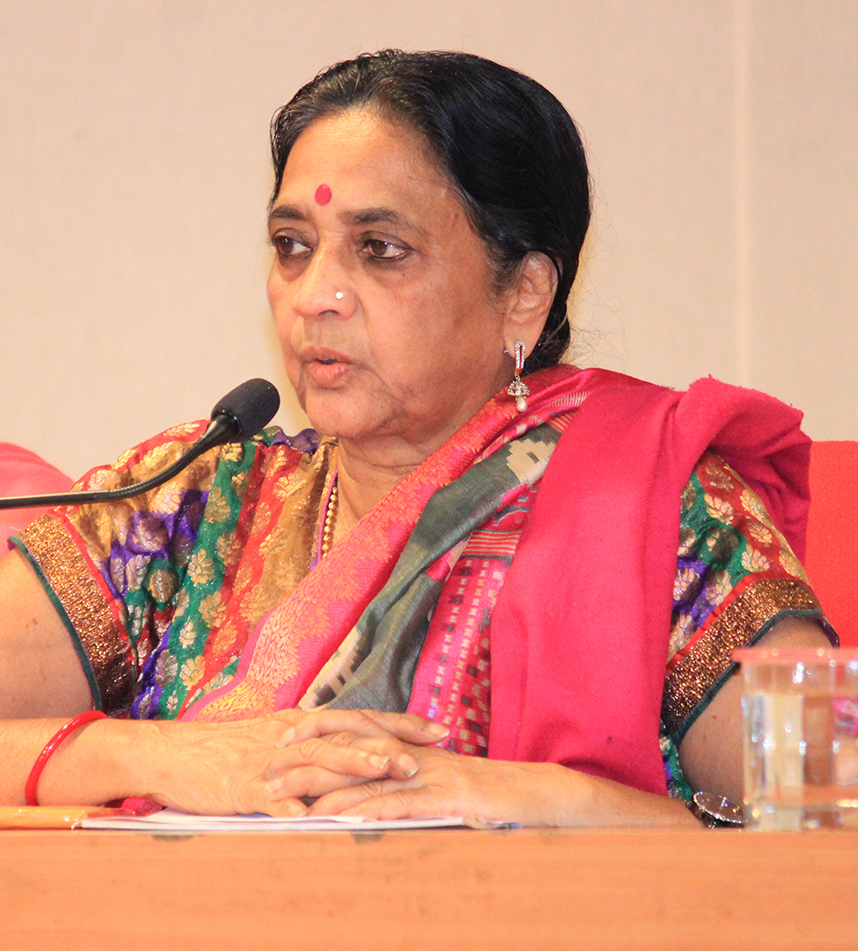 Gujarati writer